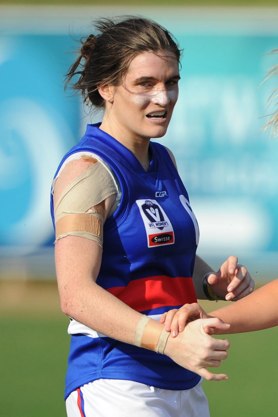 Kirsten McLeod of Western Bulldogs during the 2018 VFLW round 5 match between NT Thunder and Western Bulldogs at TIO Stadium on Saturday, 2 June 2018 in Darwin, Australia.